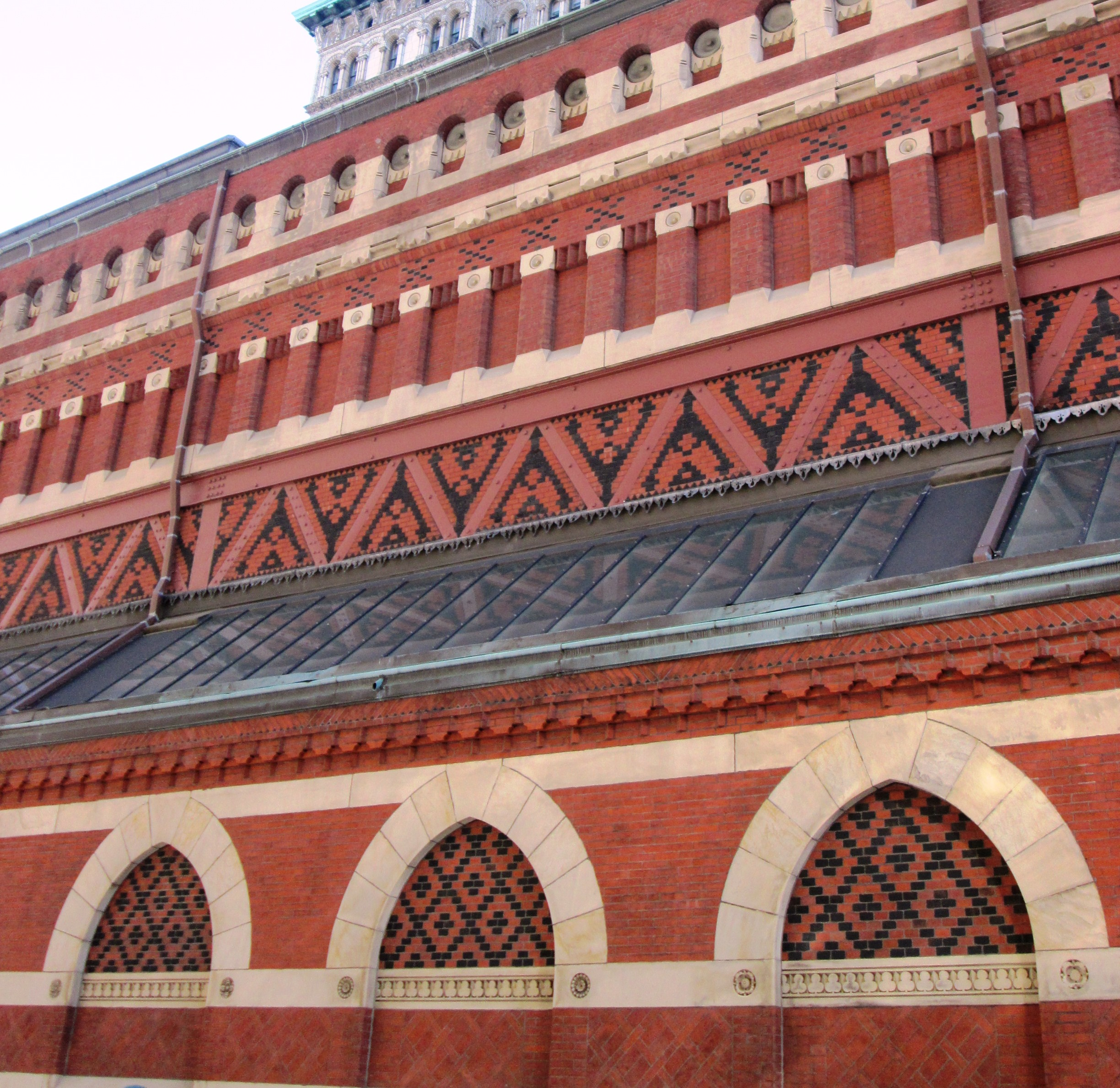 The Pennsylvania Academy of the Fine Arts building at Broad and Cherry Streets in the Center City area of Philadelphia was built from 1872-1876 and was designed by Frank Furness and George Hewitt in a combination of historical styles. It was restored in 1976, and is a National Historic Landmark. (Source: Philadelphia Architecture: A Guide to the City) This image shows a detail of the north side of the building, along the Cherry Street walkway.